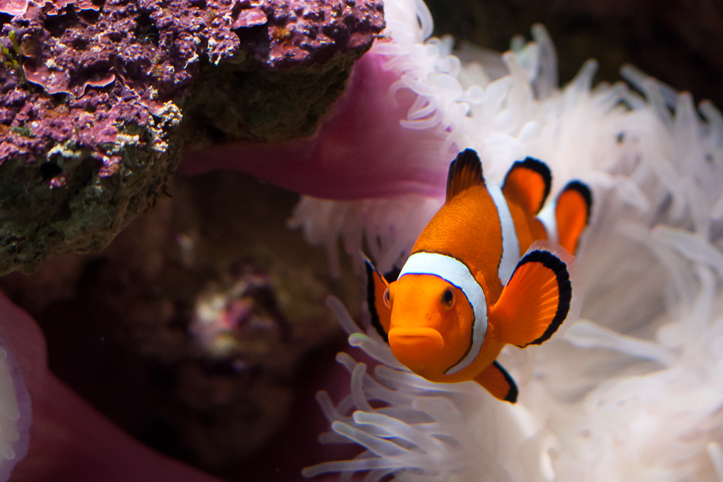 A Ocellaris clownfish at Warsaw Zoo, Poland.